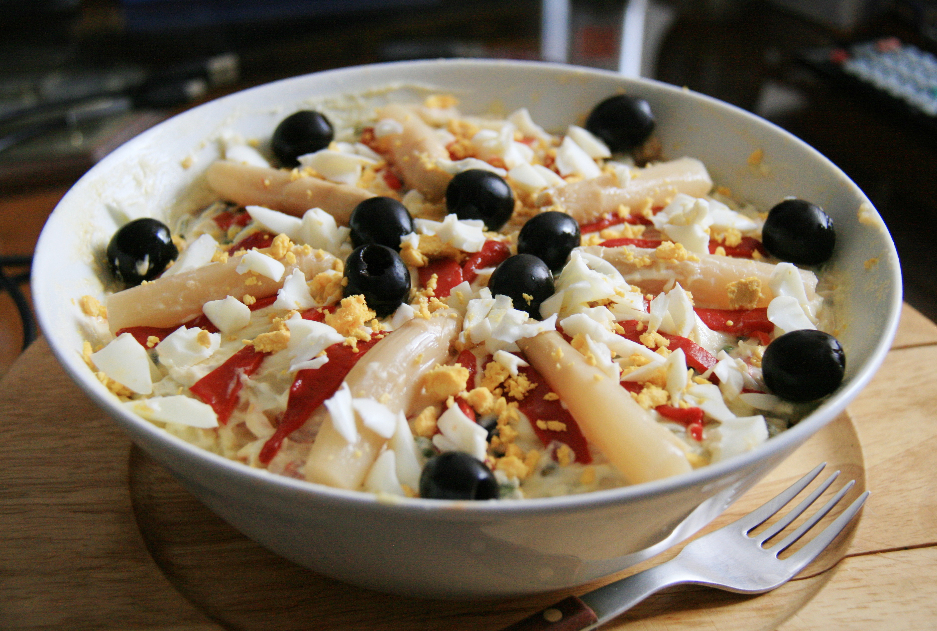 Spanish version of Russian salad